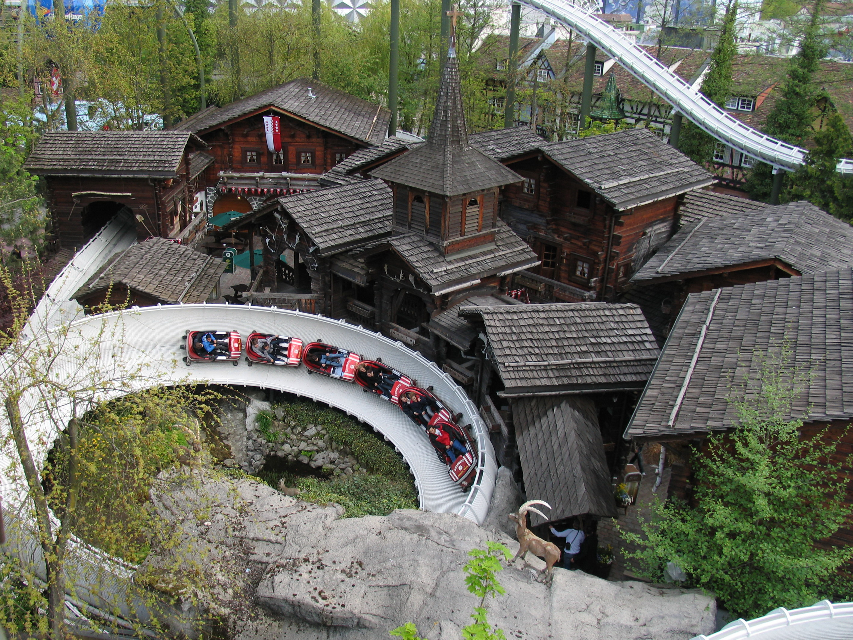 Schweizer Bobbahn, Europa-Park, Rust, Baden-Württemberg, Germany.